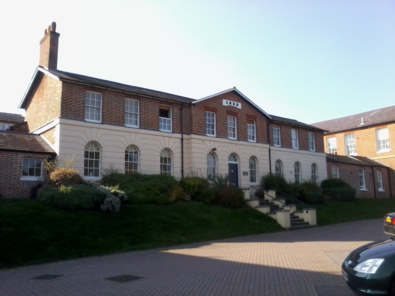 The former Andover Union workhouse viewed from Junction Road, Andover, Hampshire, England, UK. The building was designed by architect Sampson Kempthorne (1809–1873) in 1835, and construction was completed in 1836. It utilized his standard "cruciform" design with a combined entrance and administrative block facing east – the building shown in this image – which originally contained the Board of Guardians' board-room, porter's quarters, a nursery and stores. Partially visible to the right of the image is the building which originally housed the female sick wards. The buildings and former grounds are now a luxury residential development, renamed The Cloisters.